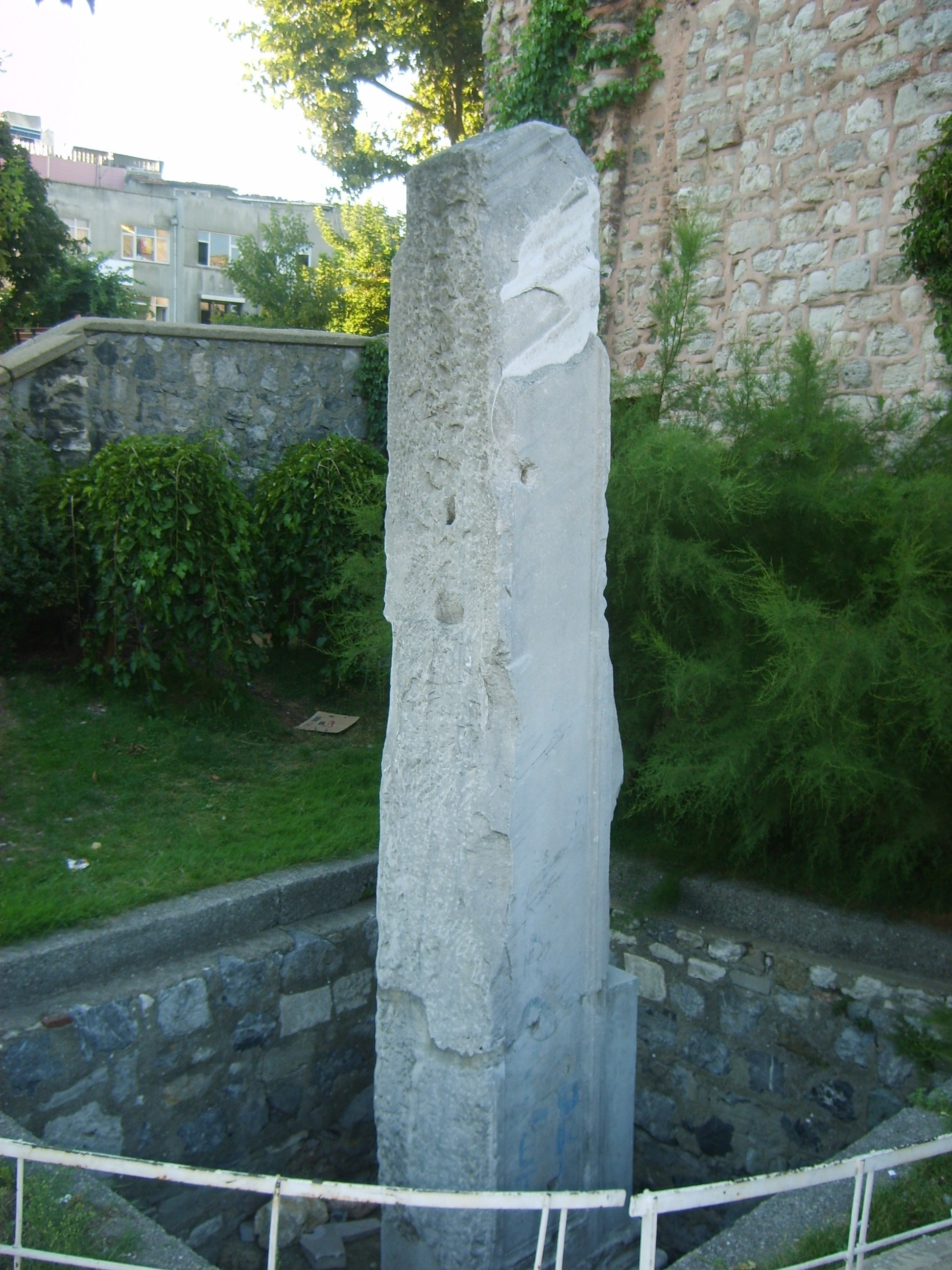 Milion Stone in Istanbul.